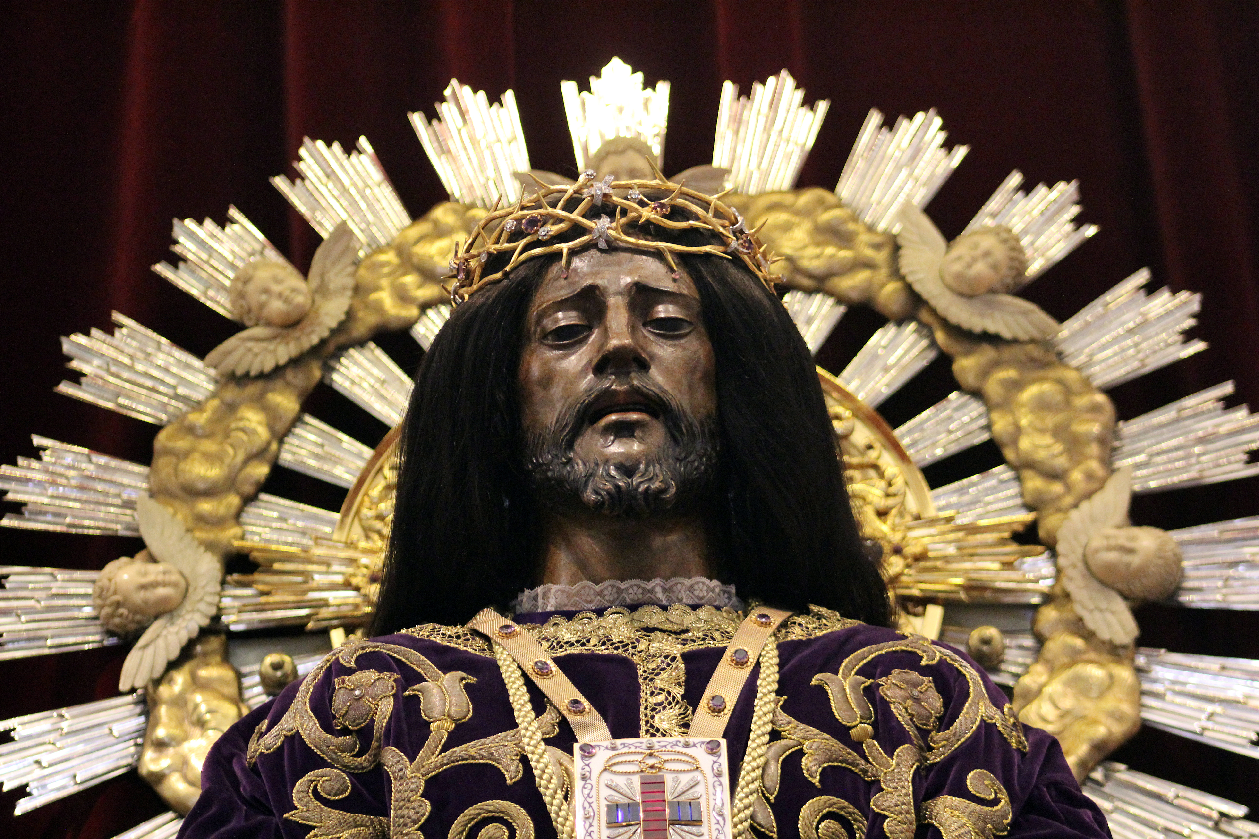 Besapiés a Jesús de Medinaceli 2019 Créditos: Archimadrid / José Luis Bonaño